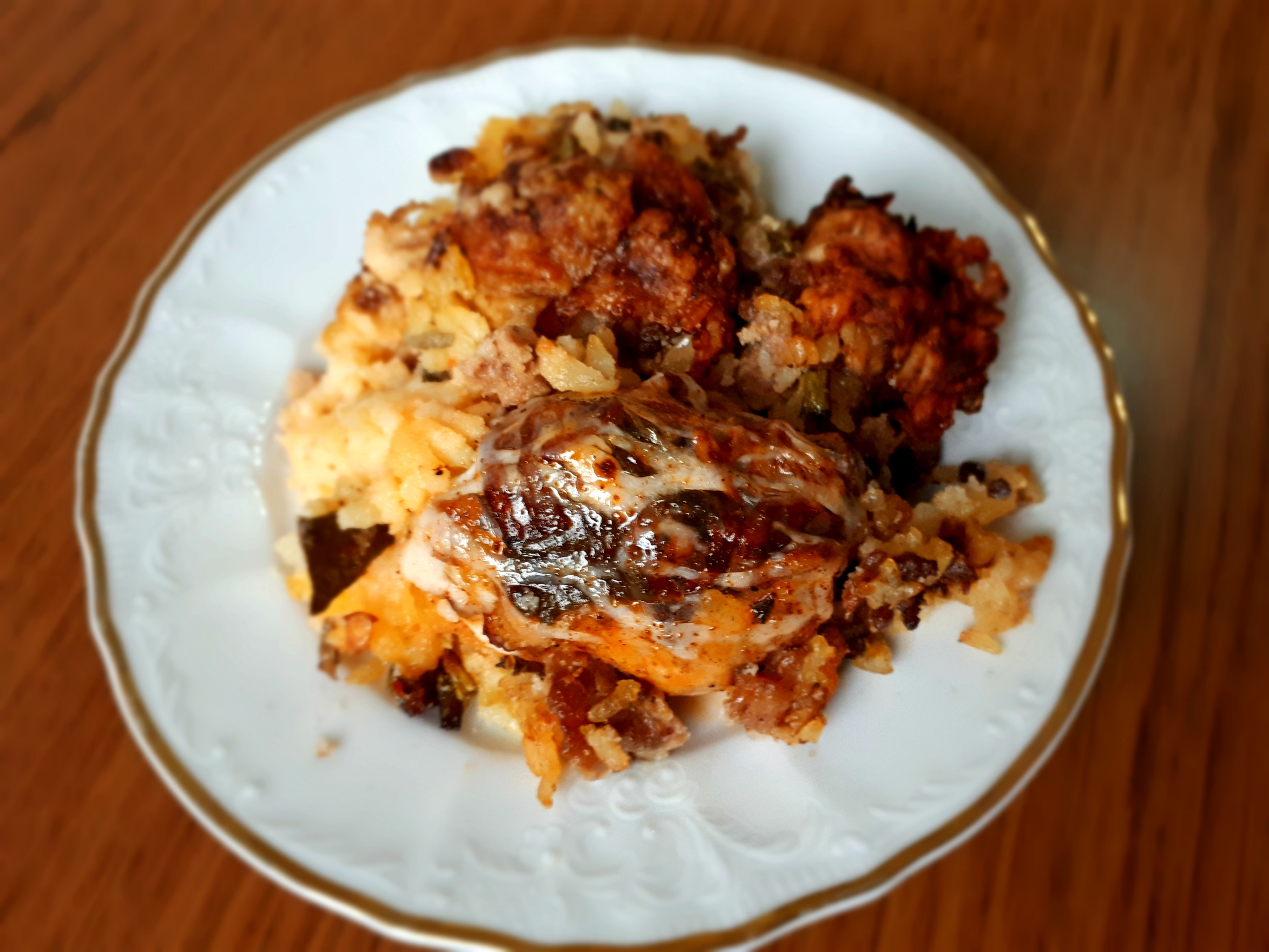 Drob sarma - Traditional Macedonian dish made from rice and lamb liver wrapped in a lamb's caul fat.